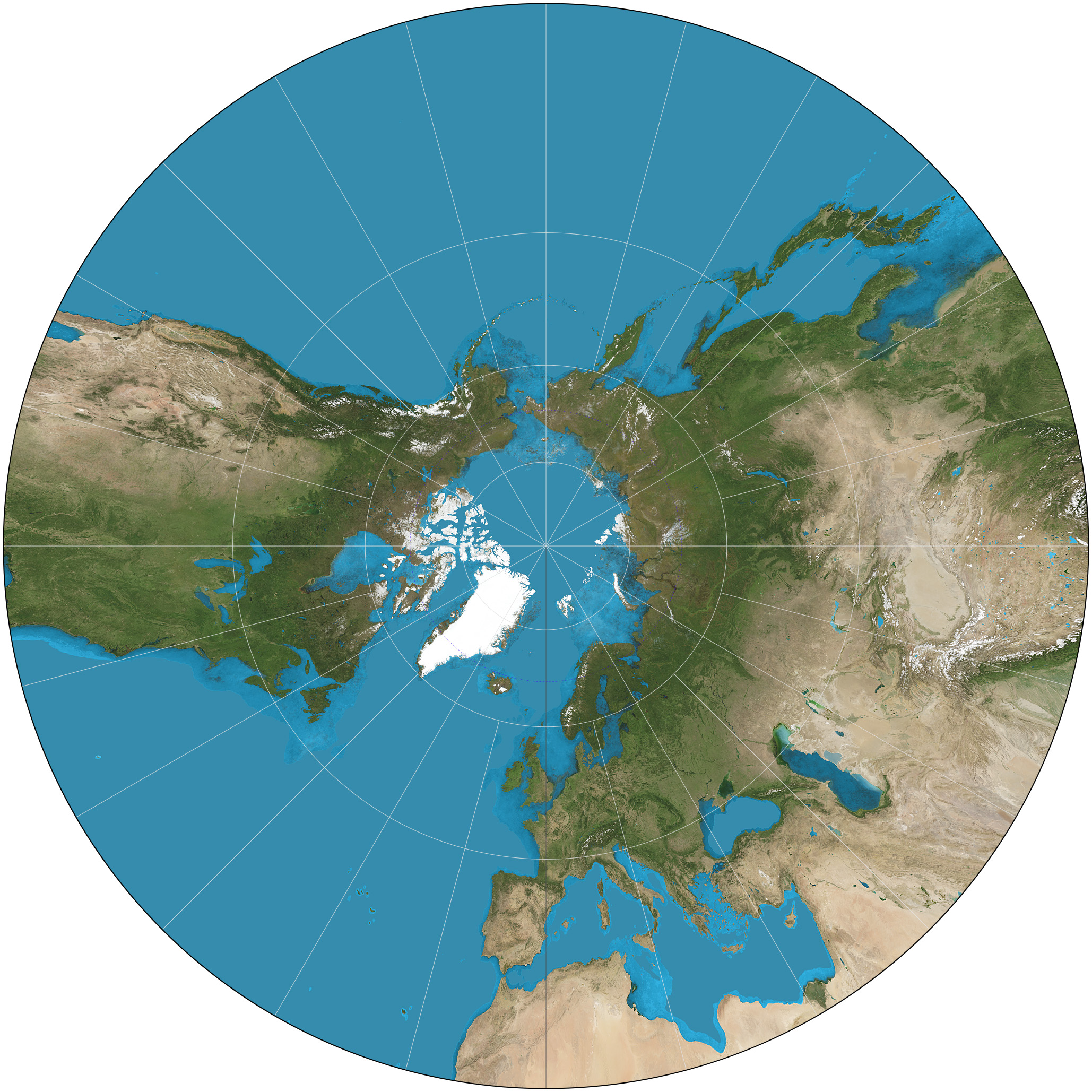 Polar view on gnomonic projection. 15° graticule, 60° radius. Imagery is a derivative of NASA’s Blue Marble summer month composite with oceans lightened to enhance legibility and contrast. Image created with the Geocart map projection software.